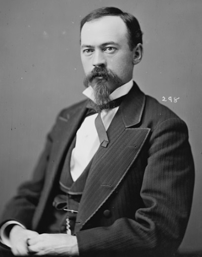 Charles Henry Morgan (Missouri Congressman)